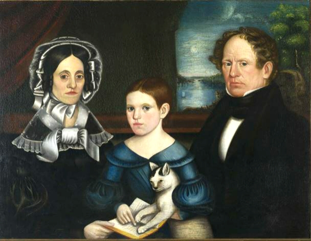 Family Group with Cat